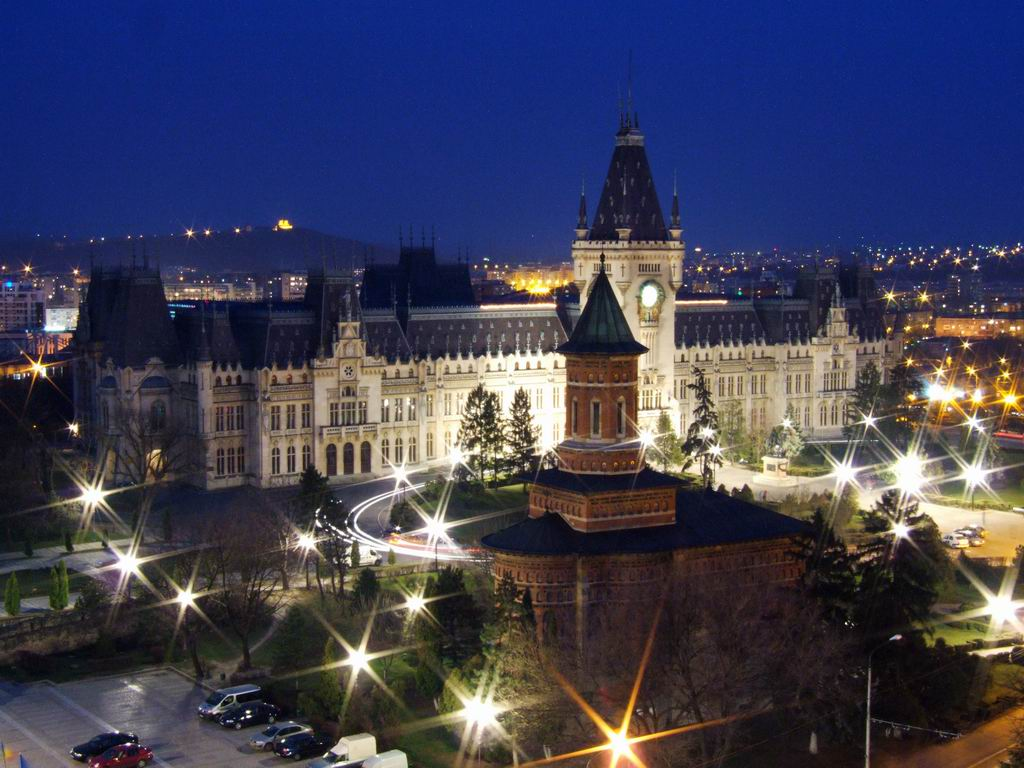 Palace of Culture and Princely Saint Nicholas Church, Iaşi (Iassy), Romania